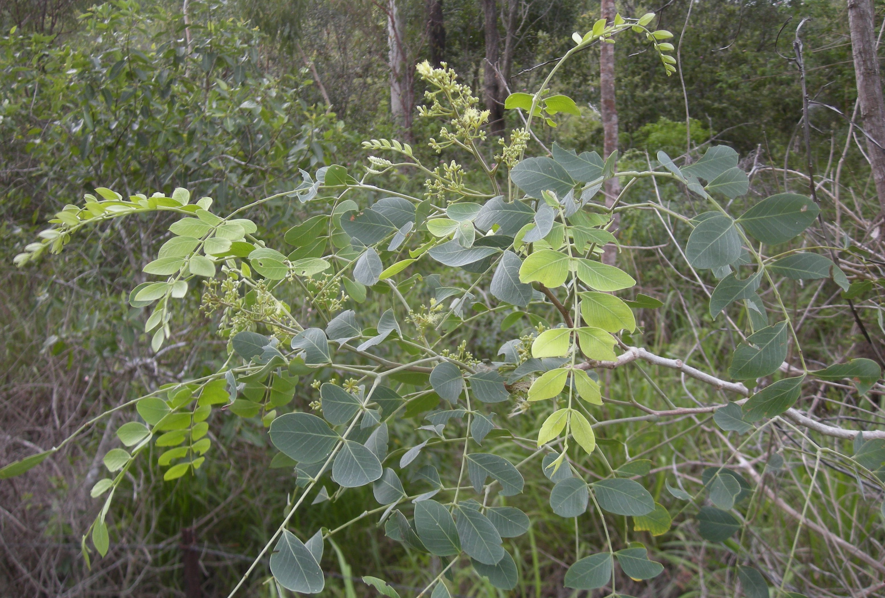 Albizia canescens (Belmont Siris) foliage and flowers. Mt Etna National Park